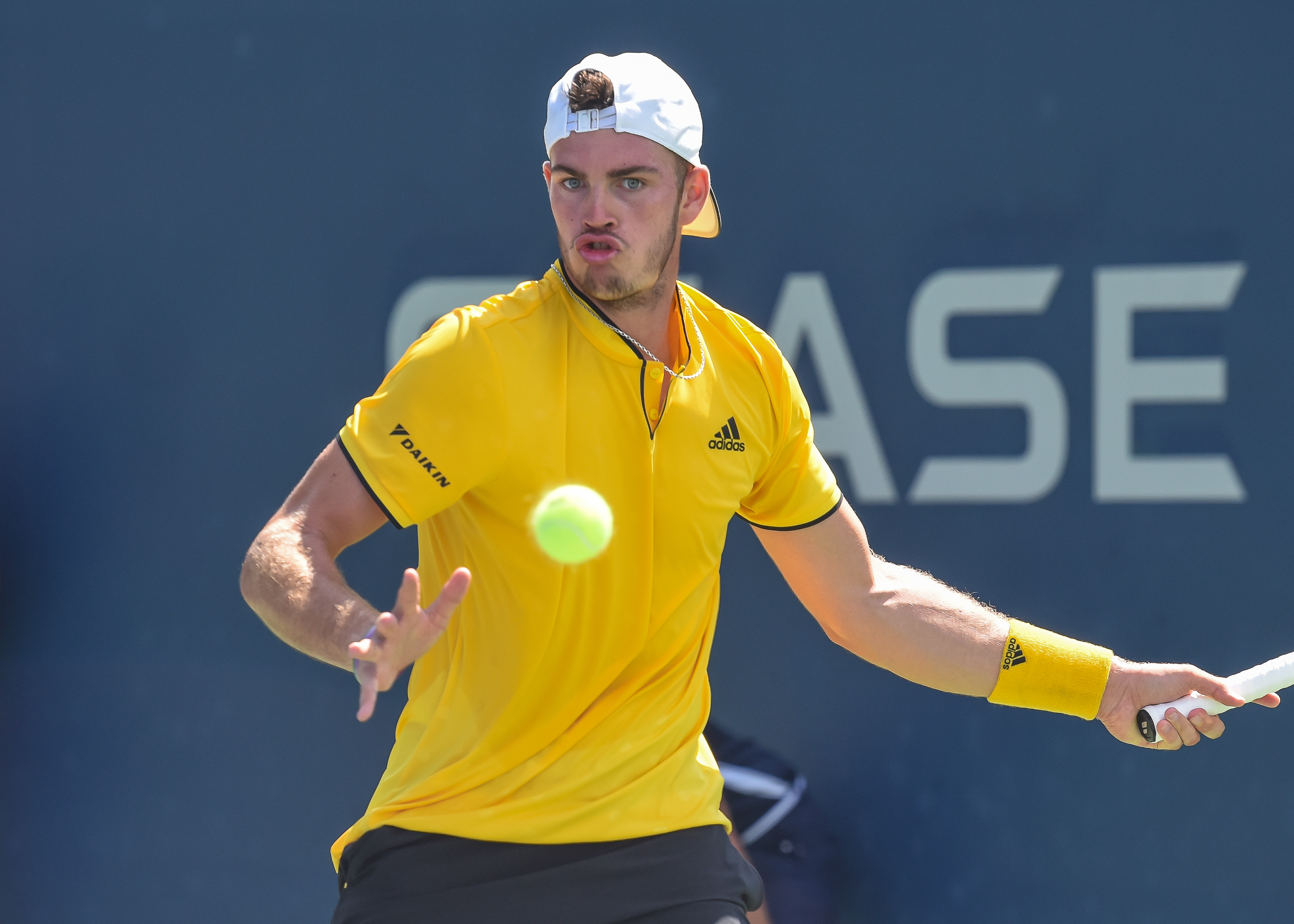 August 25, 2017 Court 6 Flushing, NY Maximilian Marterer